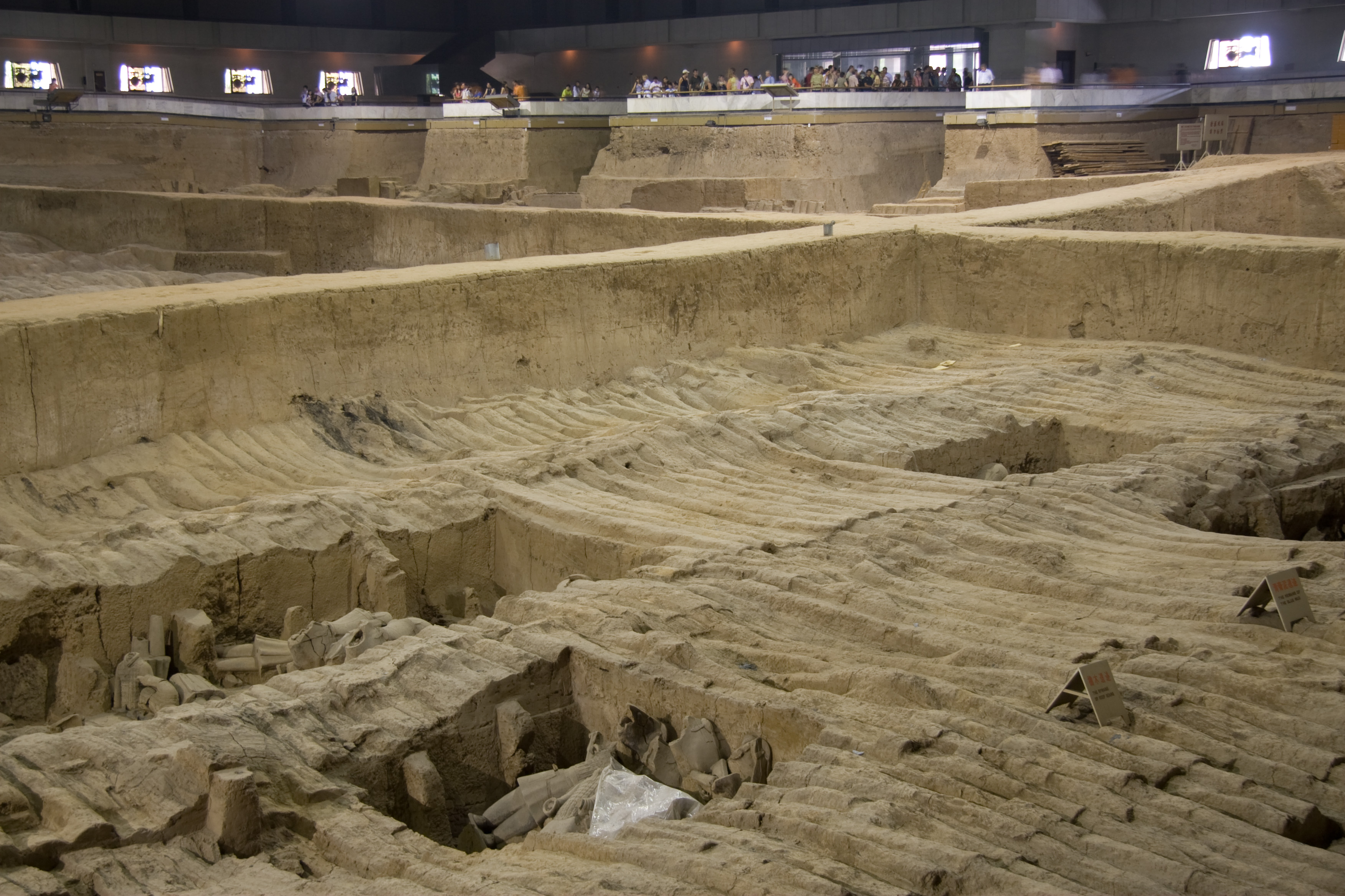 Terracotta Army - in Xi'an, China